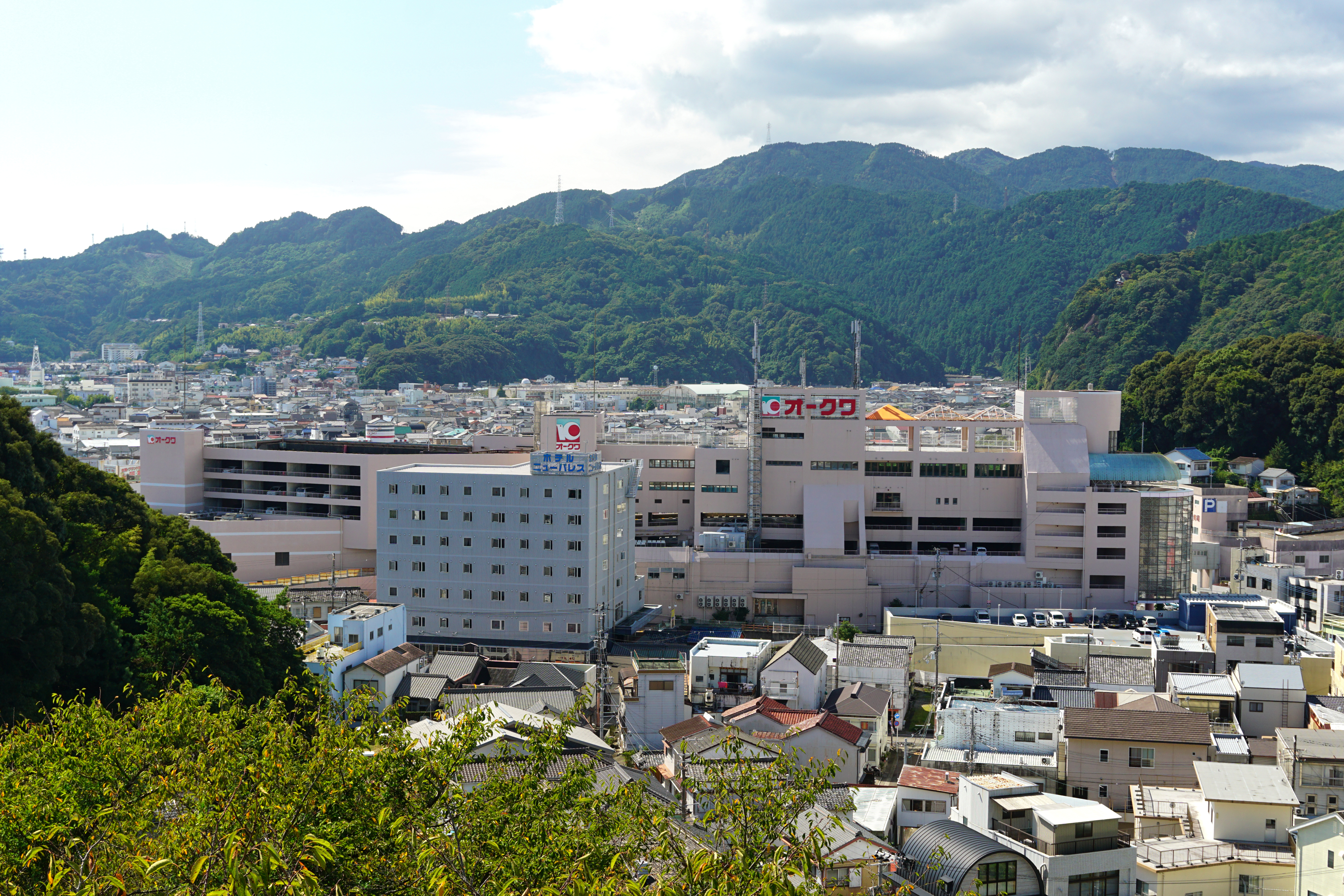 A view from Shingū Castle in Shingū, Wakayama prefecture, Japan